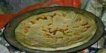 This is a famous dish prepared in winters from bajra....a little bit of health